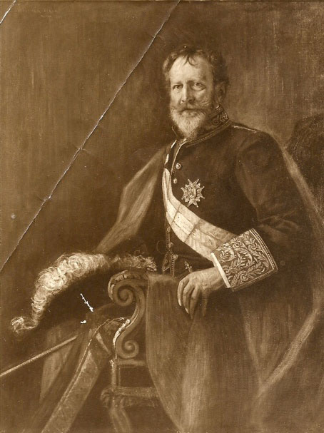 Portrait of José Brunetti y Gayoso de los Cobos, 15th Duke of Arcos, Grandee of Spain (1839-1928), wearing the uniform of Spanish Ambassador and the insignias of the Order of Charles III